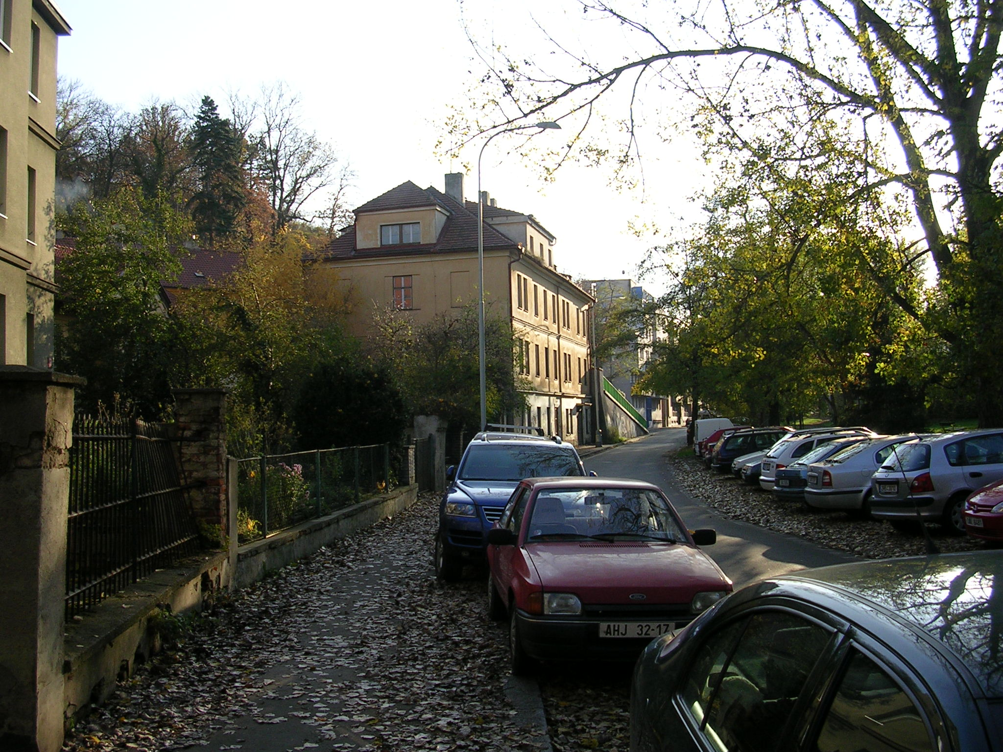 Podolí, Prague. Podolská 622/16.